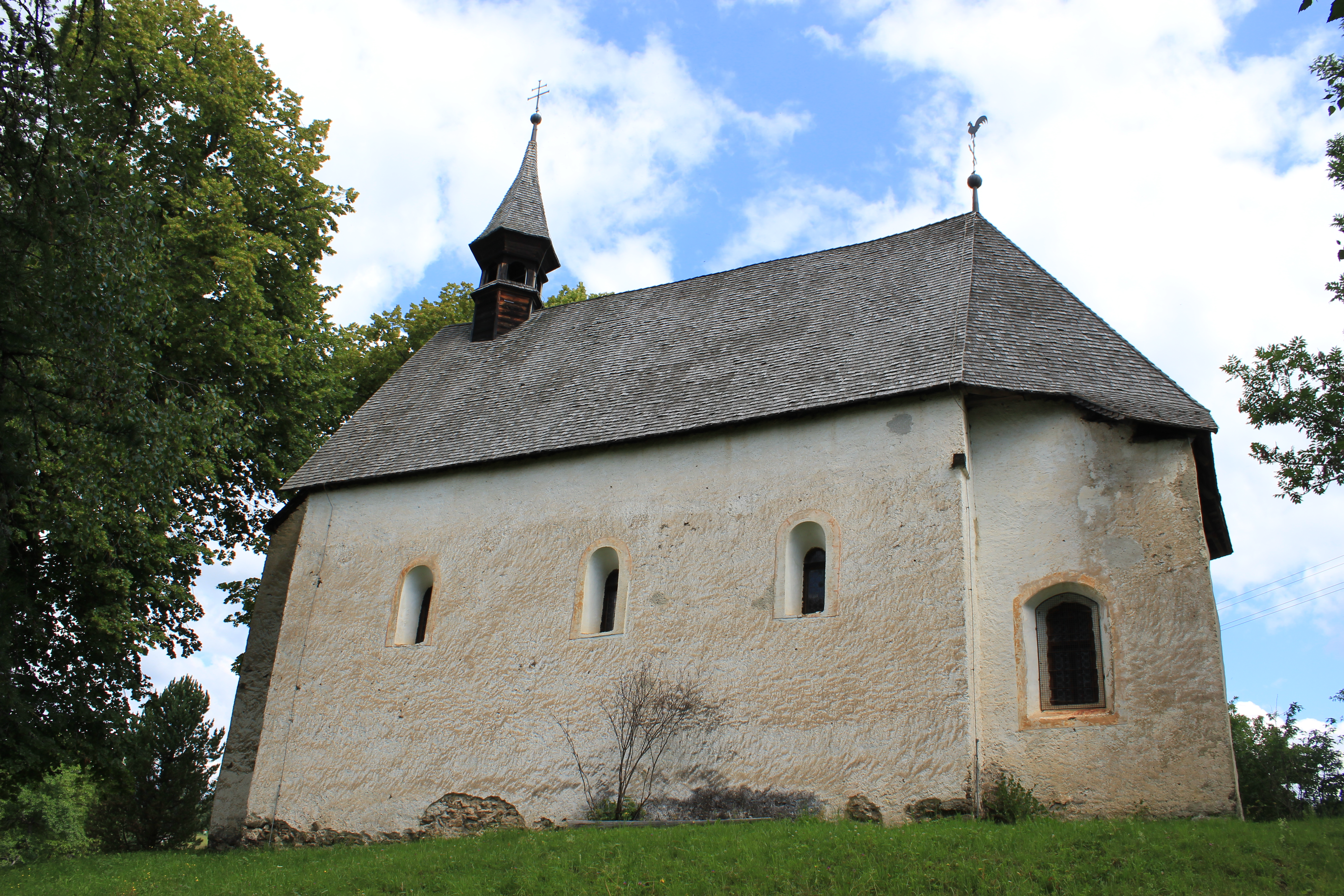 Sankt Peter in the community Straßburg - Church